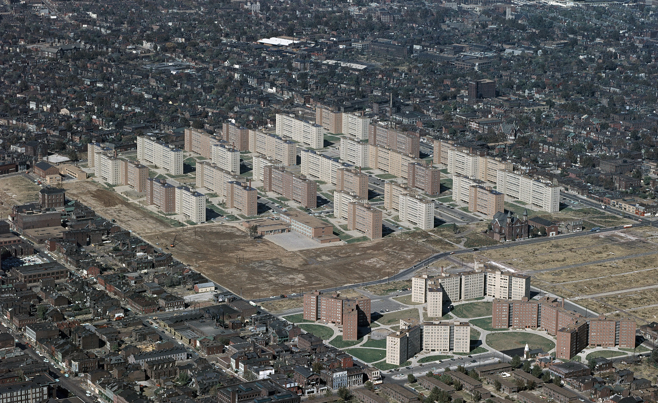 Low angle oblique USGS photograph.